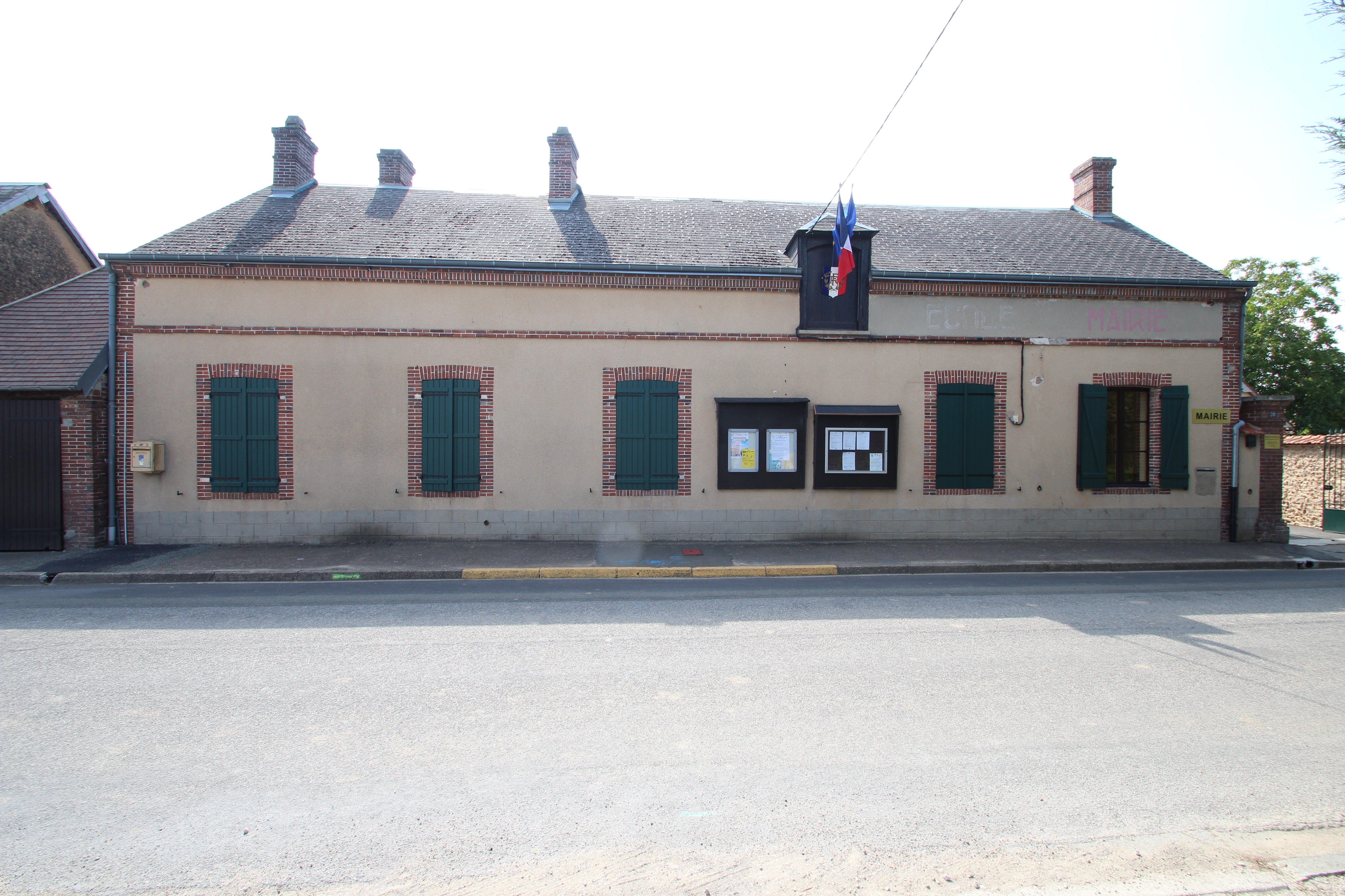 Town hall in Croisilles, Eure-et-Loir, France. Object location48° 41′ 21.58″ N, 1° 30′ 14.36″ E